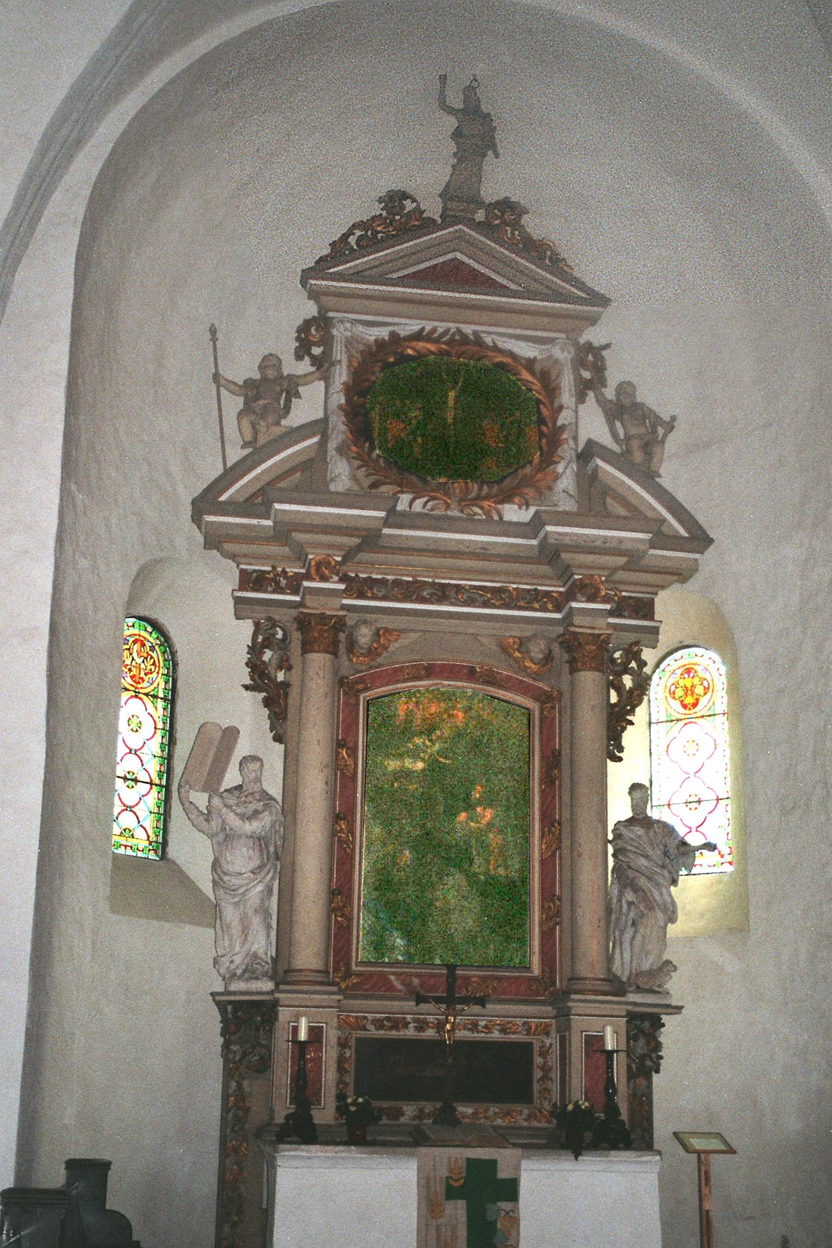 Burg bei Magdeburg, Saint Nicholas church, the altar